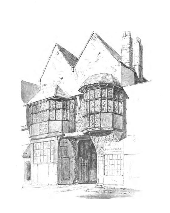 Sketch of the George Inn, Salisbury, by William Twopenny (1797-1873)